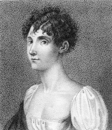 Italian opera singer Rosa Morandi (1782-1824). Stipple engraving by Giovanni Antonio Sasso (18..-18..).